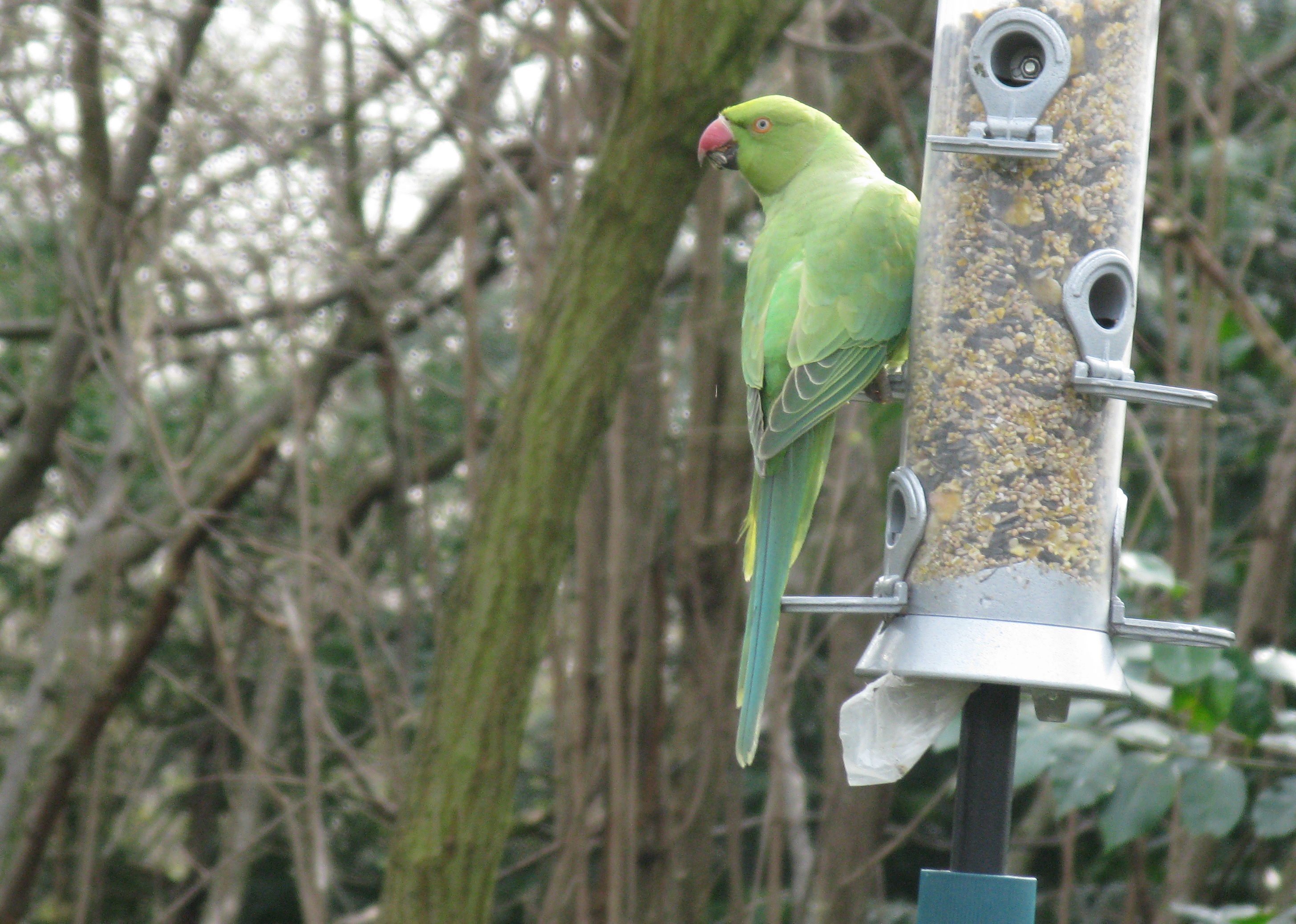 Feral Ringnecked Parakeet, Psittacula krameri on a bird feeder in Kensington Gardens, London, England.